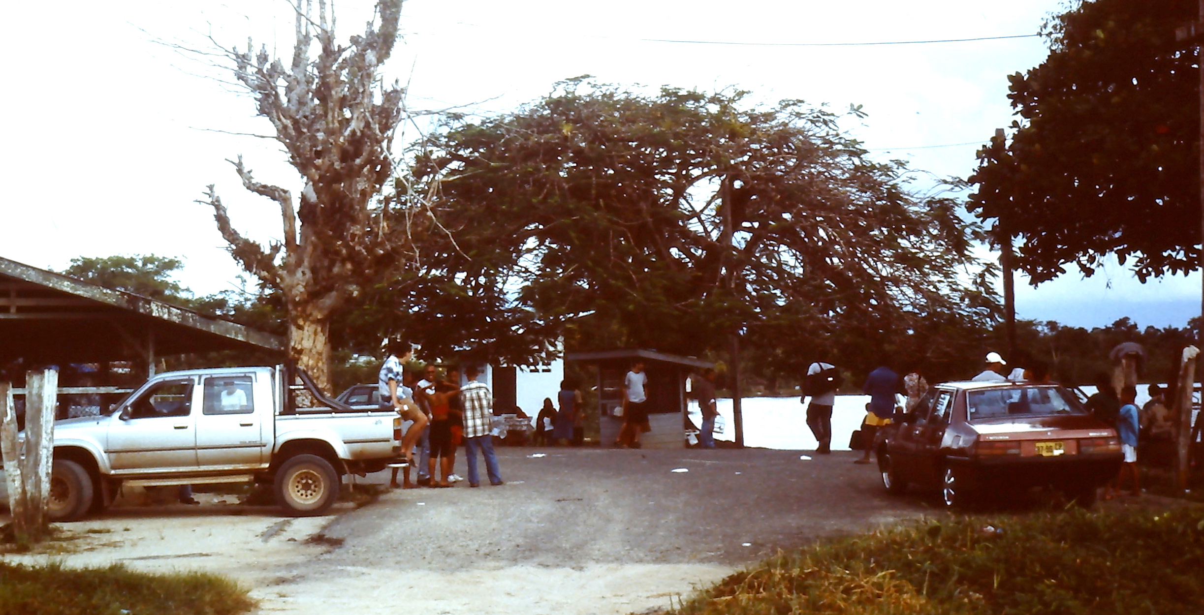 Ferry Uitkijk, Suriname, July 2000. Now replaced by bridge.